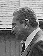 Ezer Weizman, President of Israel 1993-2000, at a visit to the US on September 7, 1978. He was then the Israeli Defense Minister in the cabinet of Menachem Begin. ARC Identifier: 181129